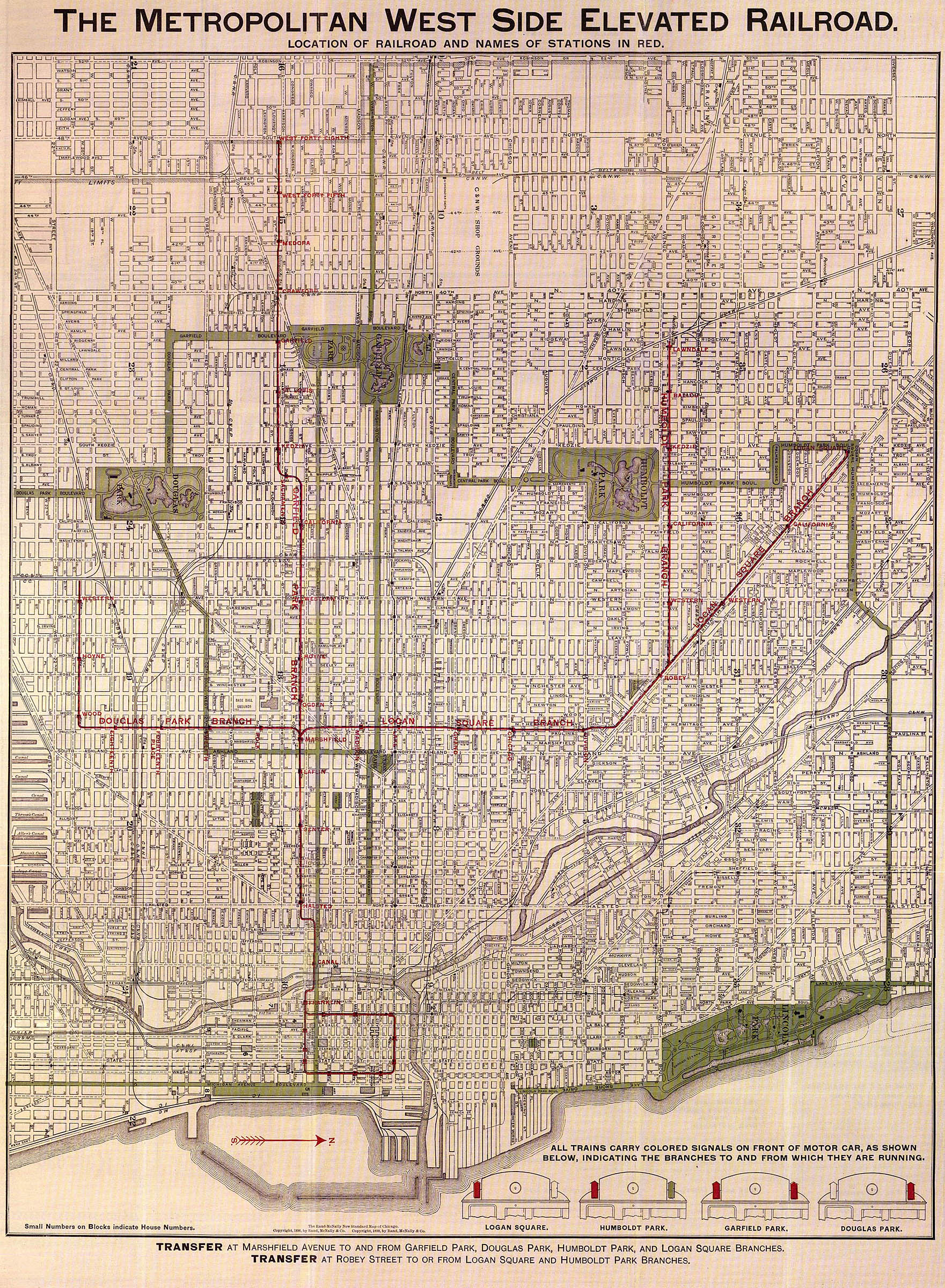 Map of Metropolitan West Side Elevated Railroad lines, a predecessor to the Chicago 'L'.